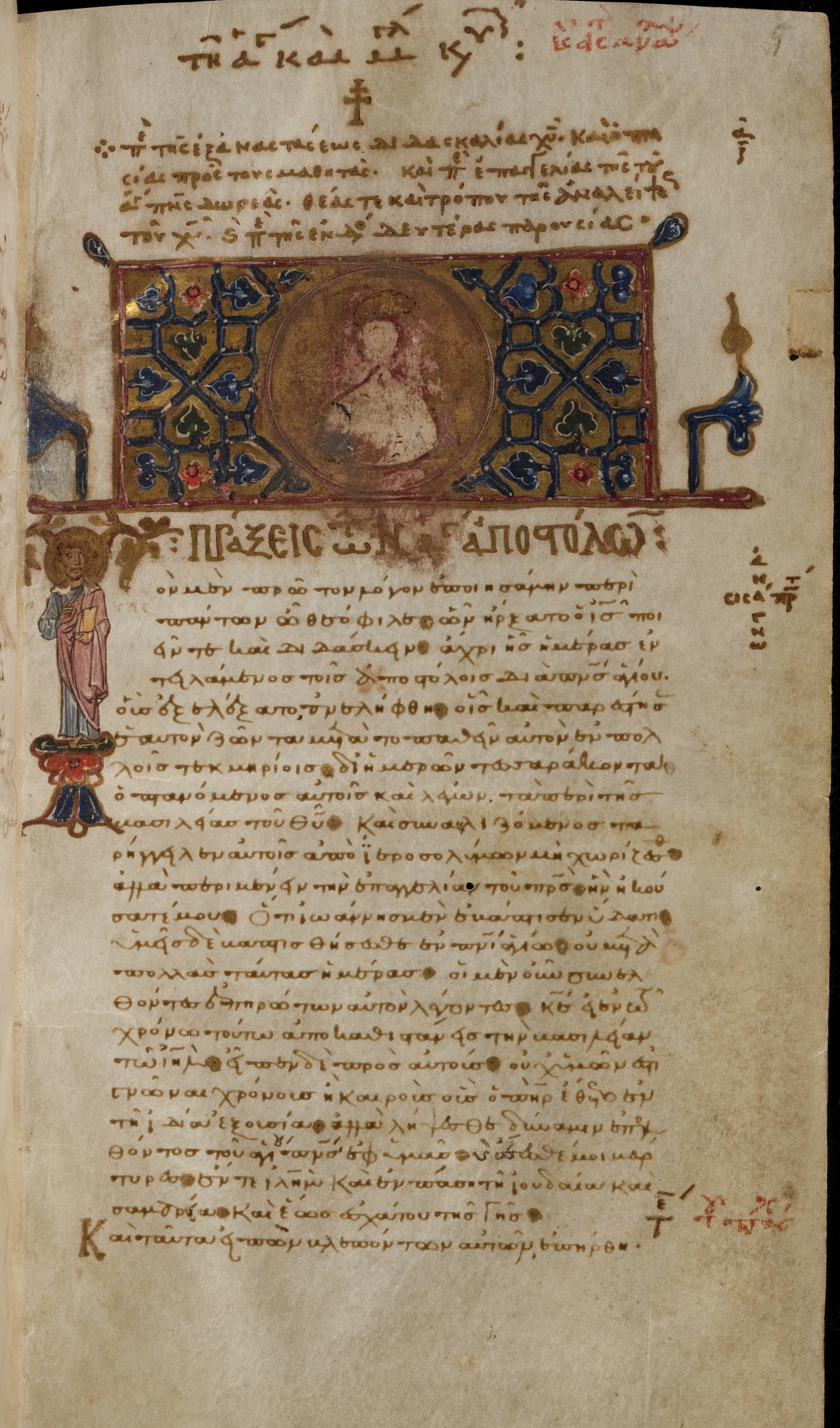 folio 5 recto, the beginning of the Book of Acts